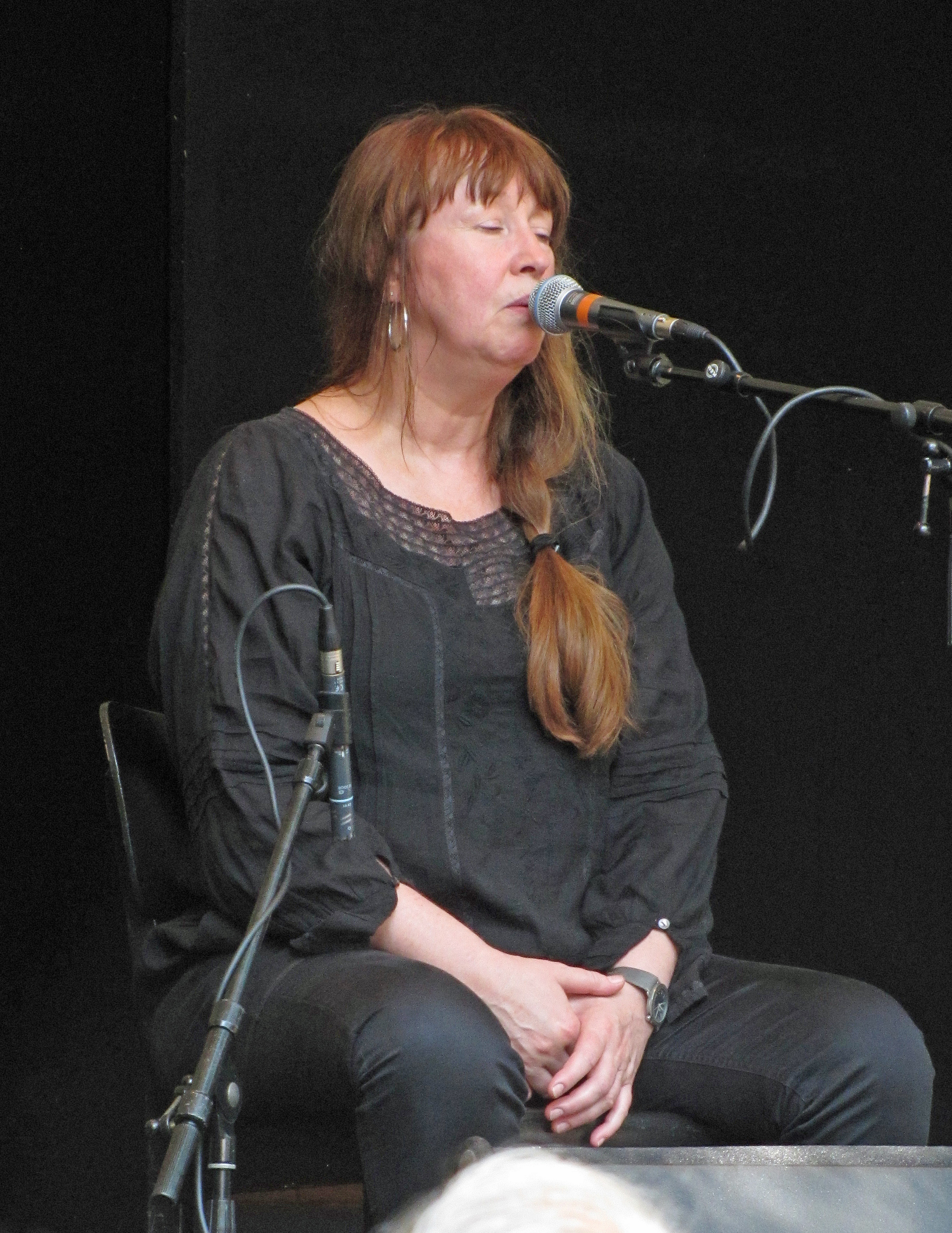 Sidsel Endresen (with Hakon Kornstad), 2010 in Frankfurt am Main, at garden of "Liebieghaus" (museum), Germany.